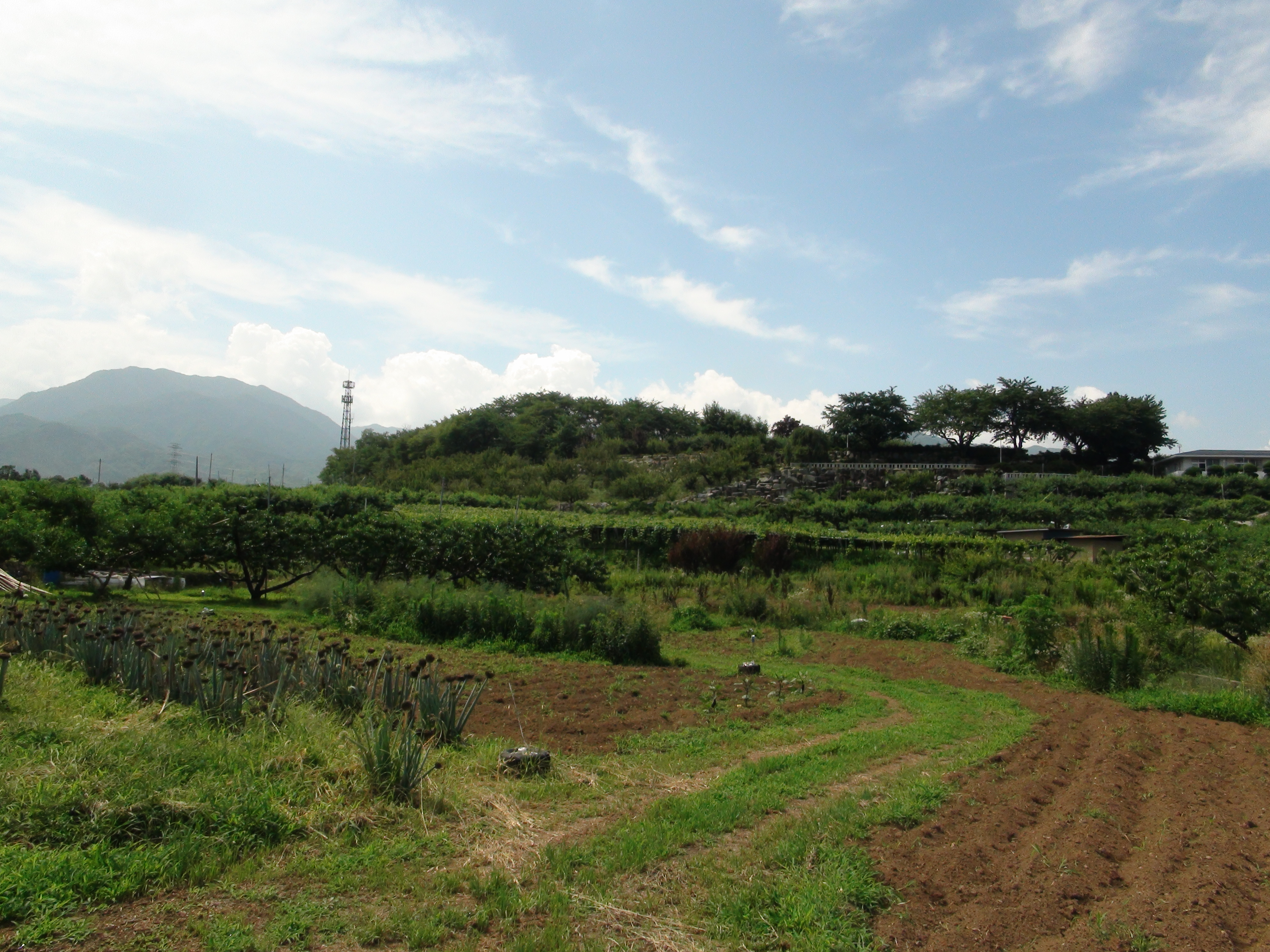 Distant view of the Koyama Castle Kai Province